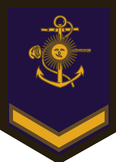 Rank insignia of a Seaman Second Class of the Argentine Navy.